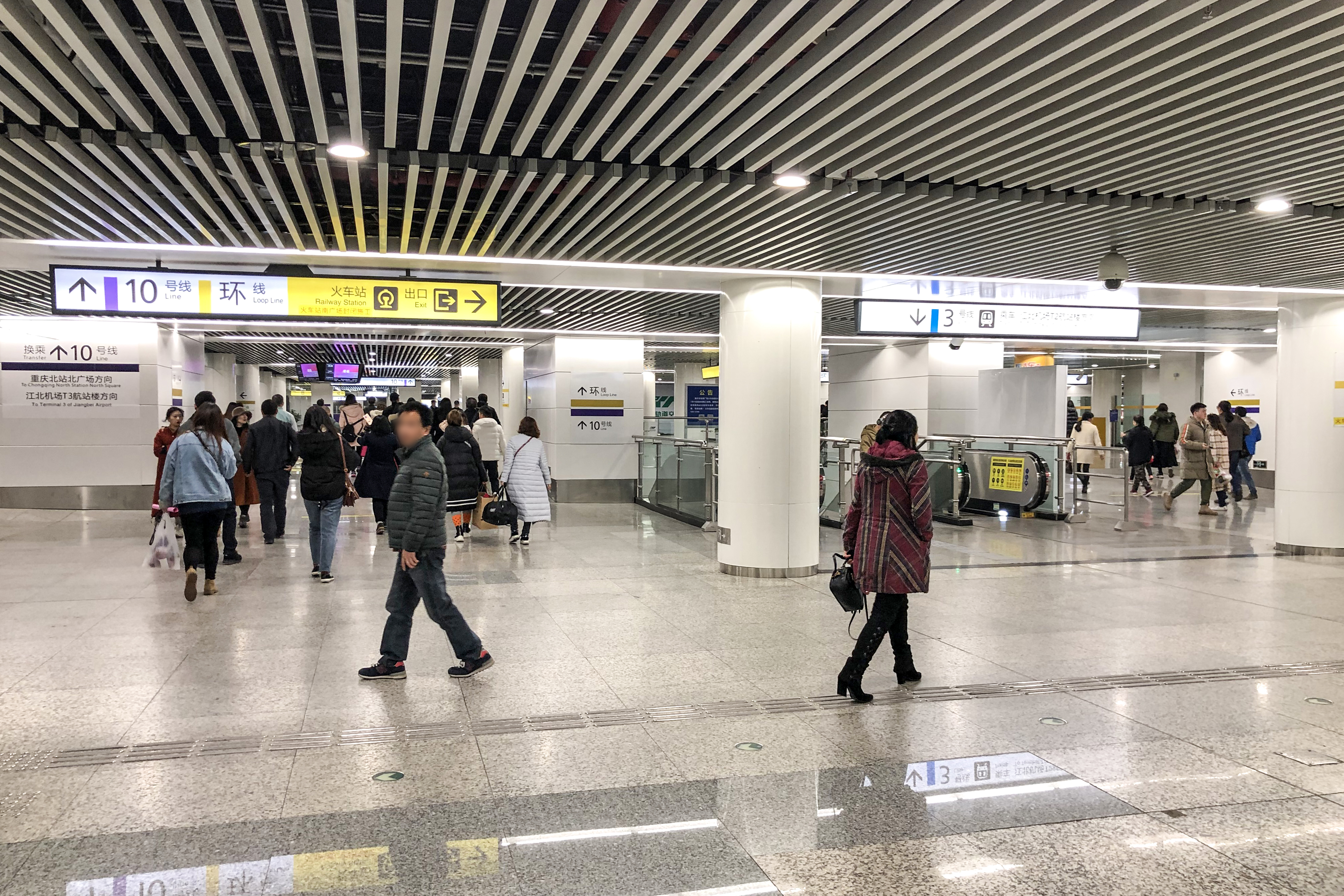 So which floor...